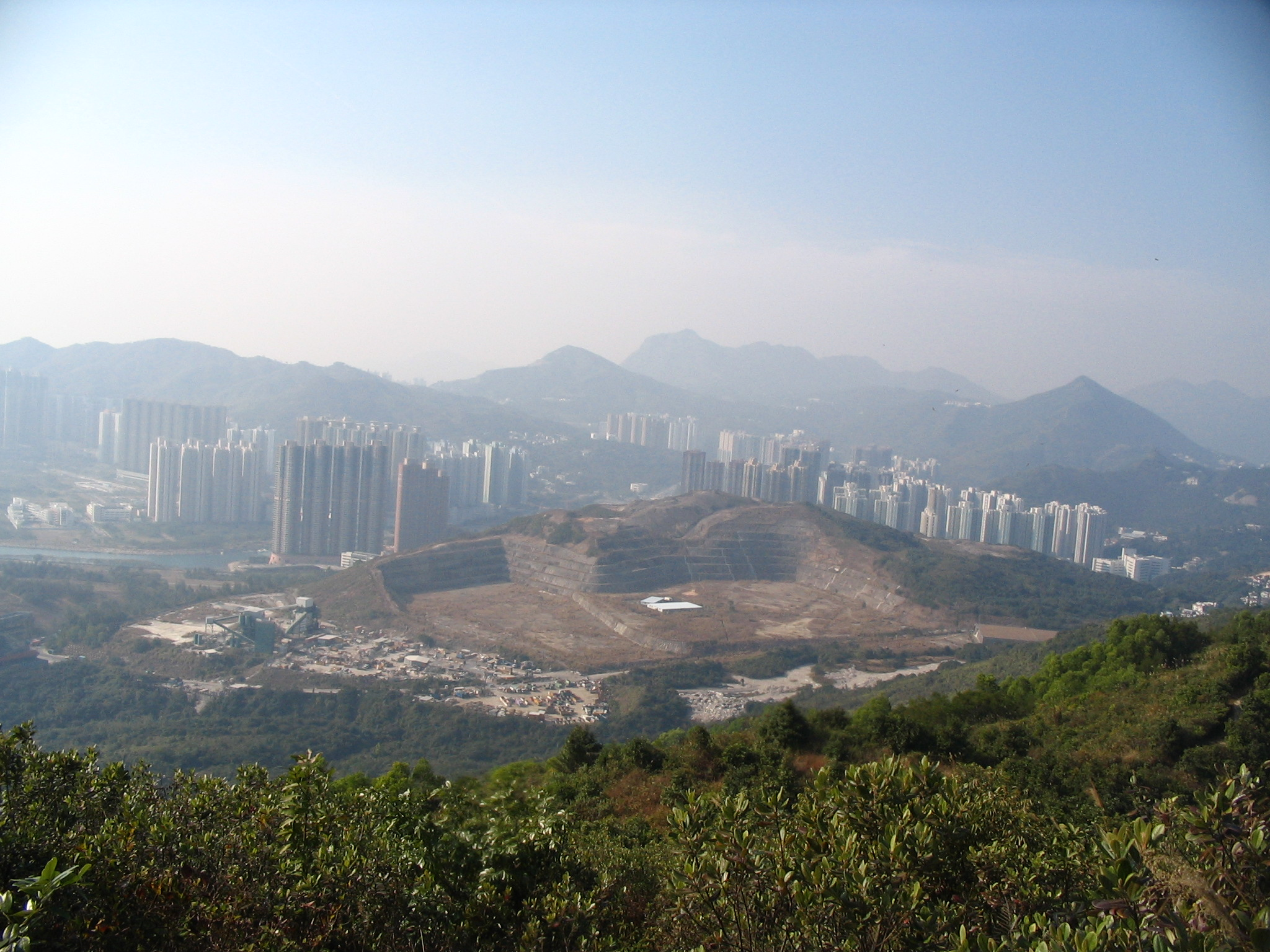 Photo of Pak Shing Kok Quarry